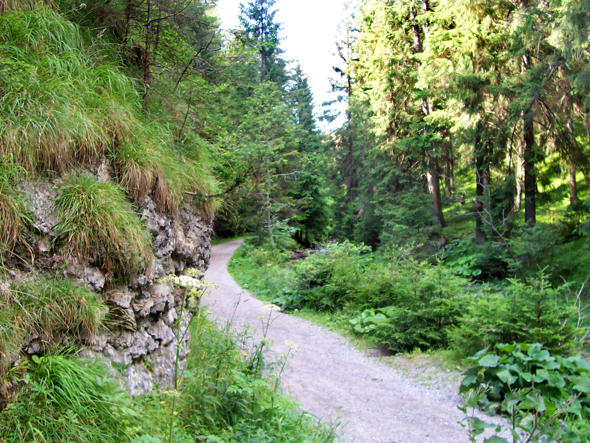 Kvačianská valley. Orava, Slovakia